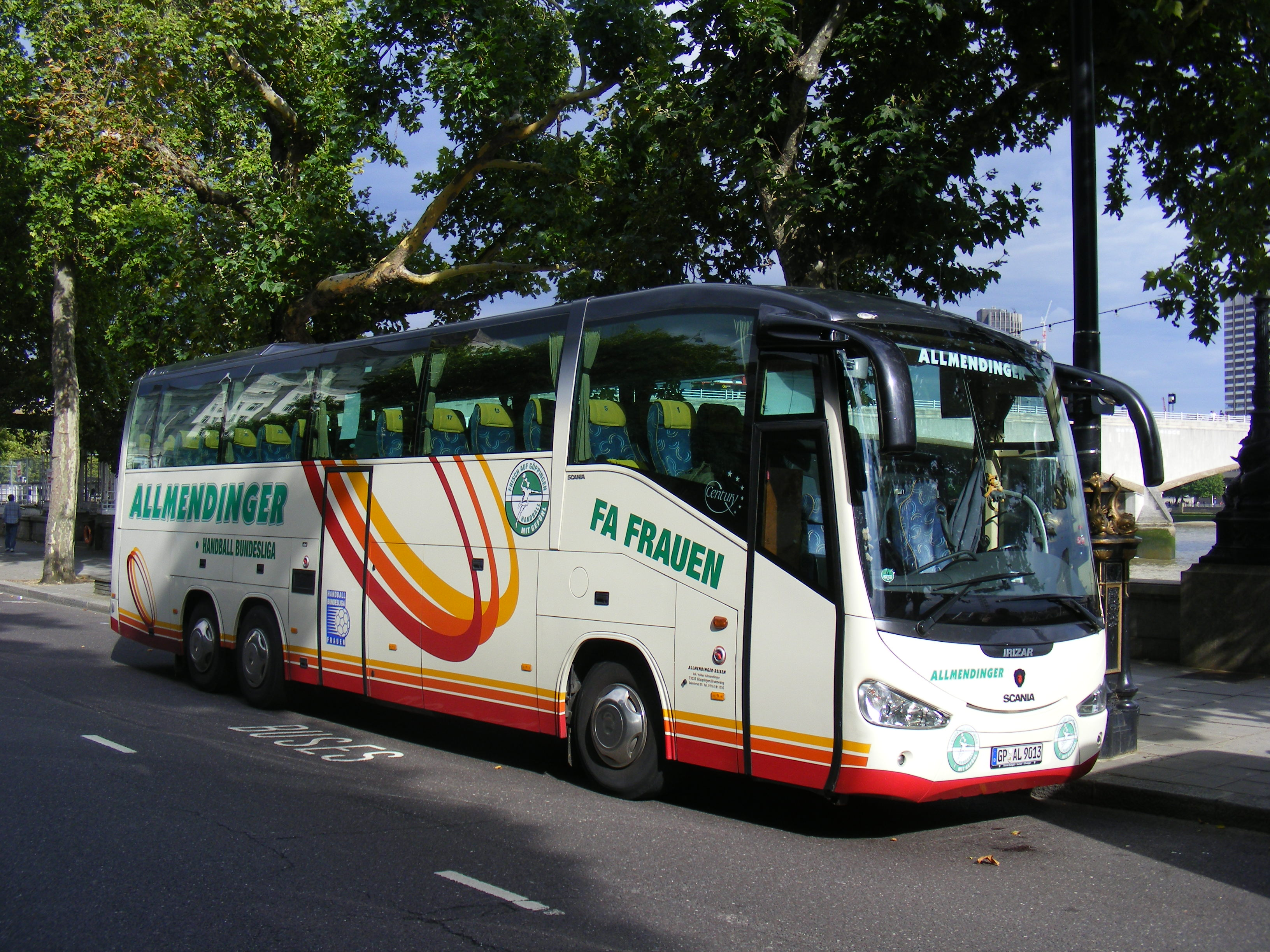 scania irizar Frisch Auf! Göppingen Frauenmannschaft lackierung. ALlmendinger Reisen, operated for the town's Women's Handball team in the Bundesliga. A Handball stadium is being built at the Olympic park in Stratford for 2012, but the sport has about the same status in the UK as cricket does in Germany. GP-AL 9013. [ Allmendinger-Reisen - Daimlerstrasse 25 - 73037 Göppingen-Ursenwang] Founded in 1970 by Heinz Allmendinger, with lots of lovely old photos on their website